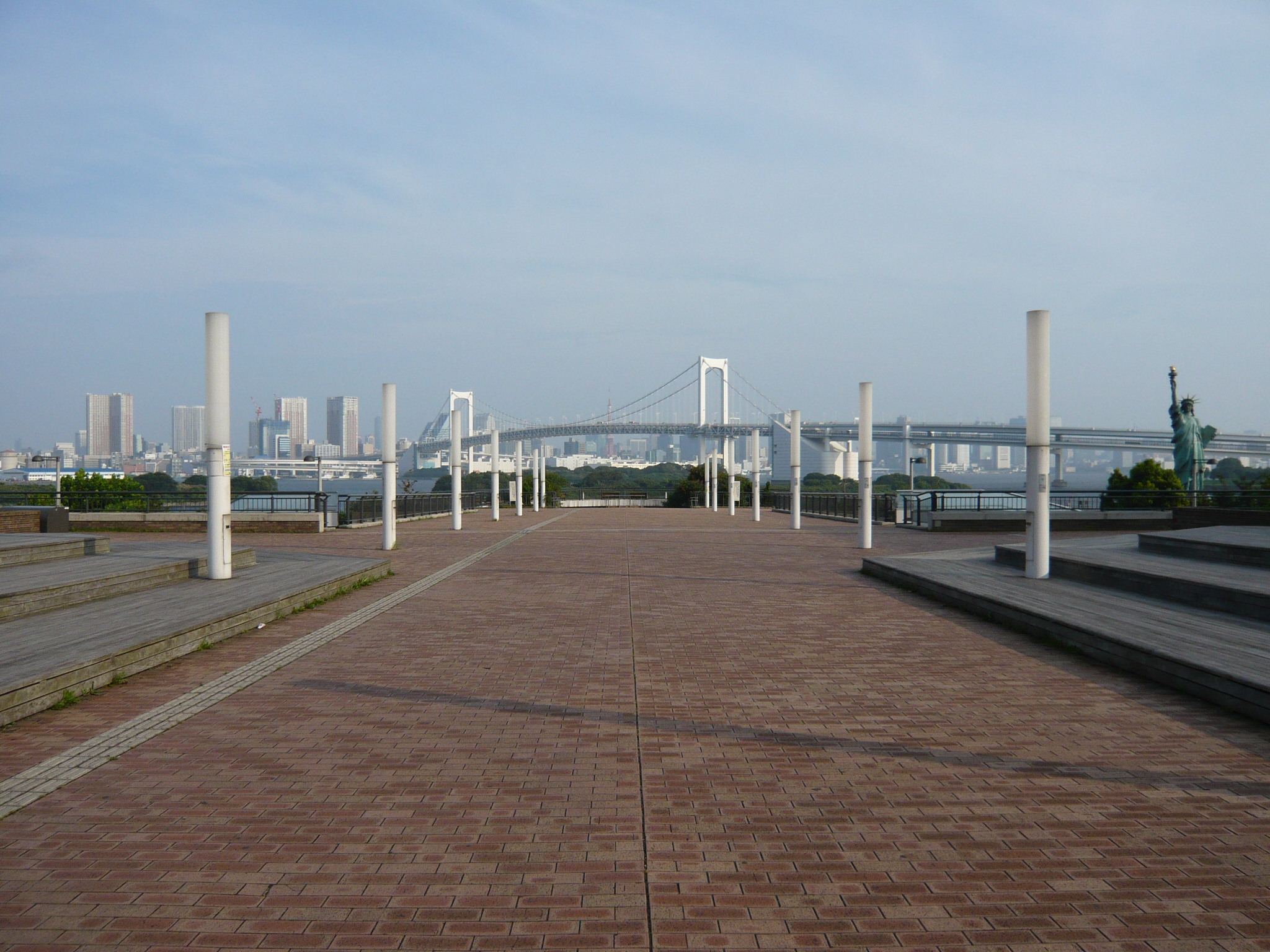 Symbol Promenade Park(シンボルプロムナード公園) in Odaiba,Tokyo,Japan.